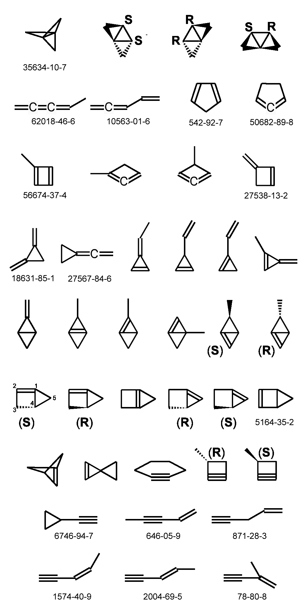 C5H6 isomers